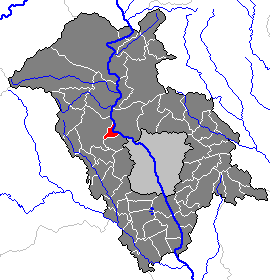 This map shows the area of the Gemeinde (municipality) Gratwein in the Bezirk (district) Graz-Umgebung, Styria, Austria.